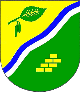 Coat of arms of the municipality Barkenholm in Schleswig-Holstein, Germany.